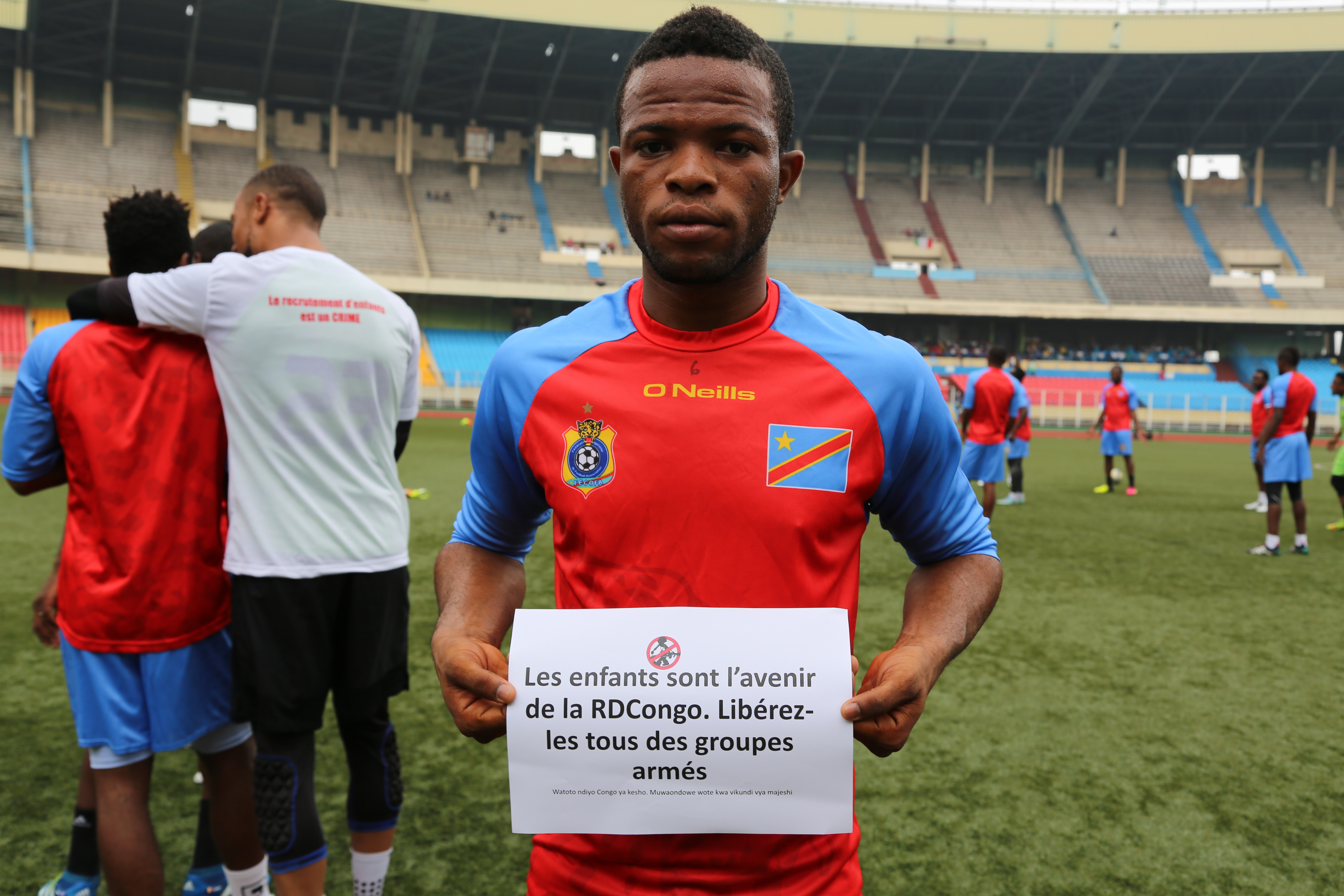 Meschack Elia participating in a MONUSCO Child Protection Unit campaign against recruitment of Child soldiers.